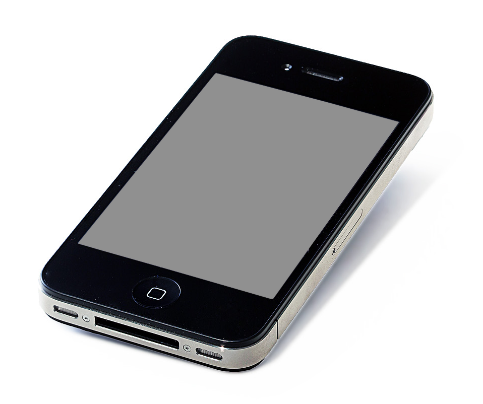 Iphone 4